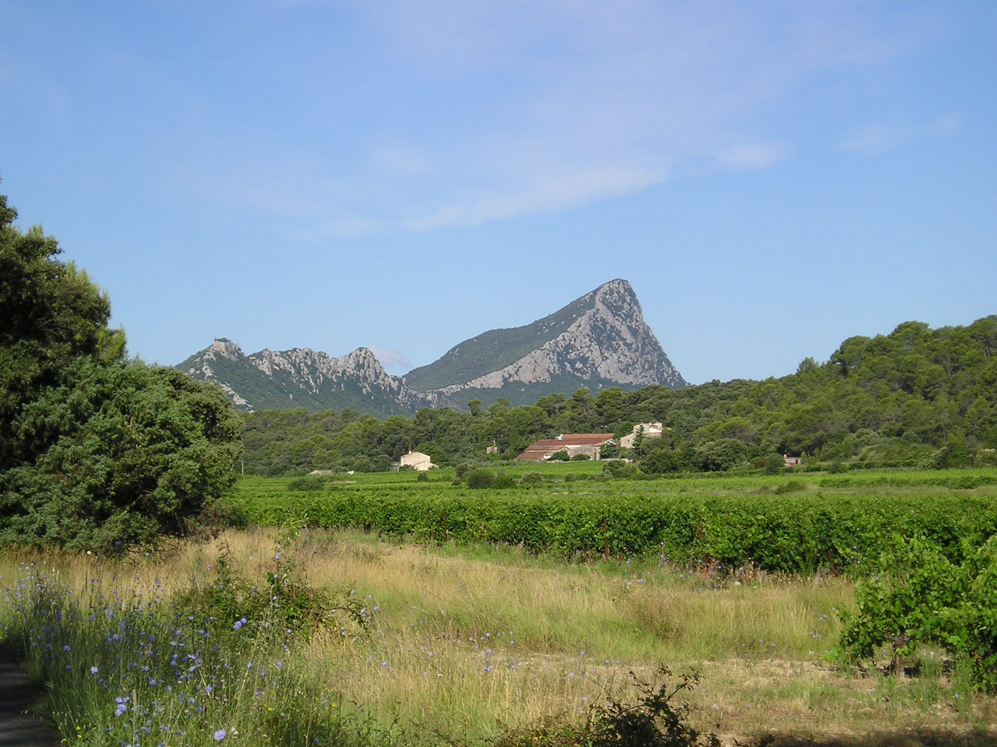 In Hérault, France, view from road D109E4 at the limit with Fontanès, the farm of La Vieille between vineyards and forest, and the pic Saint-Loup in the background. On the left, the little peaks concluded on the far left with the castle of Montferrand.